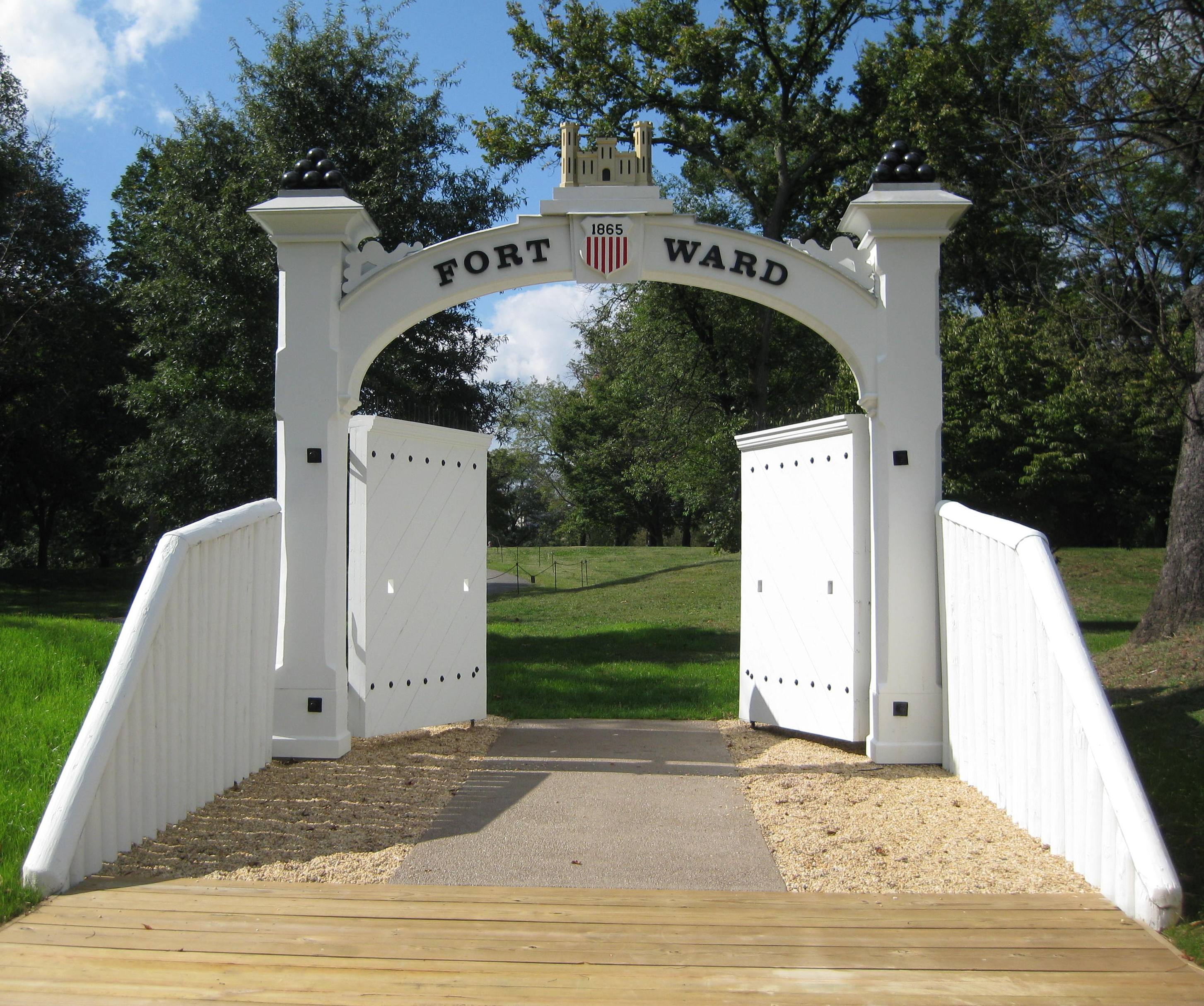 The gateway leading to the remnants of Fort Ward from its car park and museum area in October 2009